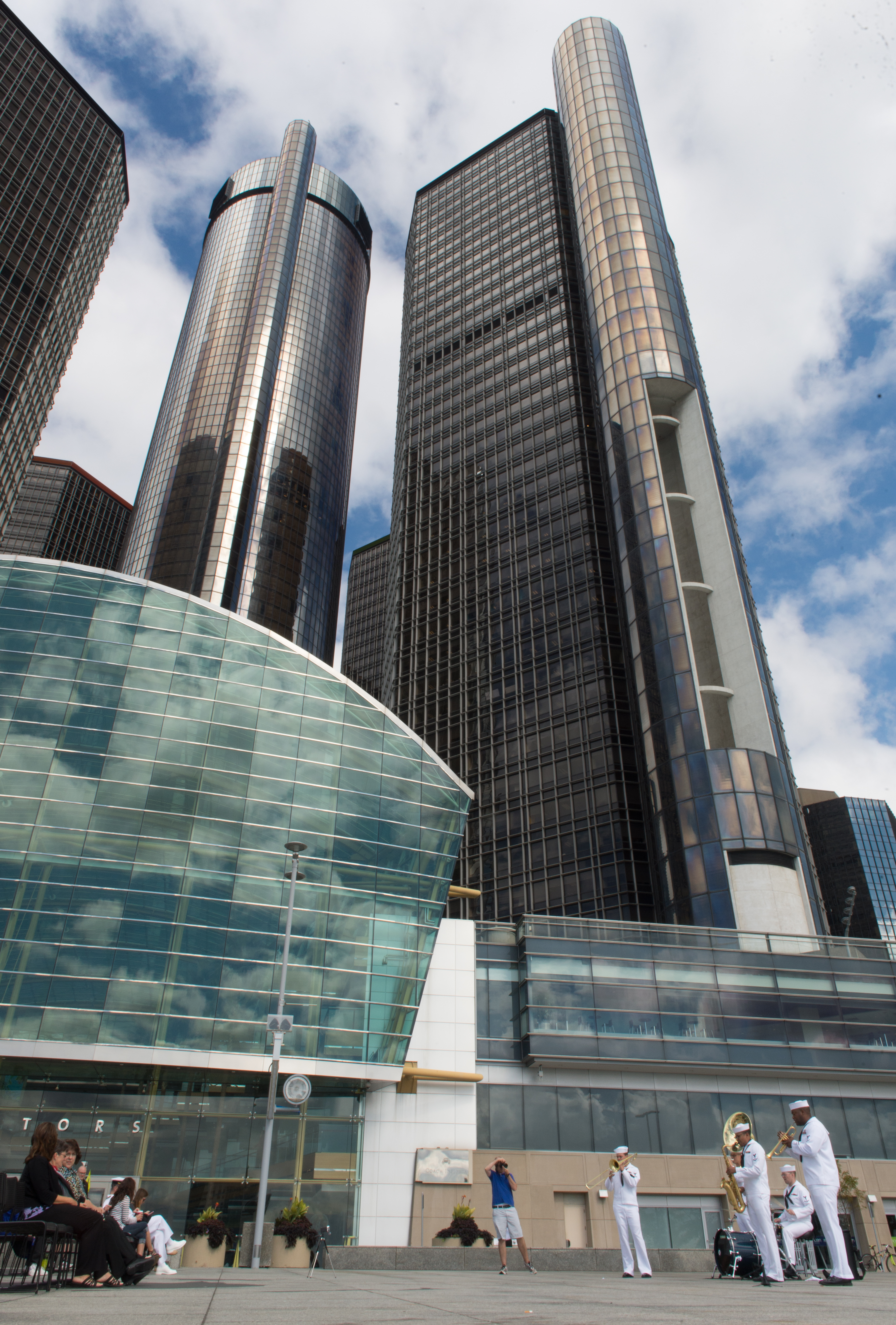 150826-N-CI175-010 DETROIT, Mich. (Aug. 26, 2015) Musicians assigned to the U.S. Navy Band, Great Lakes Brass Band, perform in front of the Renaissance Center along Detroit's downtown riverwalk as part of Detroit Navy Week. Navy Weeks focus a variety of assets, equipment, and personnel on a single city for a week-long series of engagements designed to bring America's Navy closer to the people it protects, in cities that don't have a large naval presence. (U.S. Navy photo by Mass Communication Specialist 1st Class Jon Rasmussen/Released)